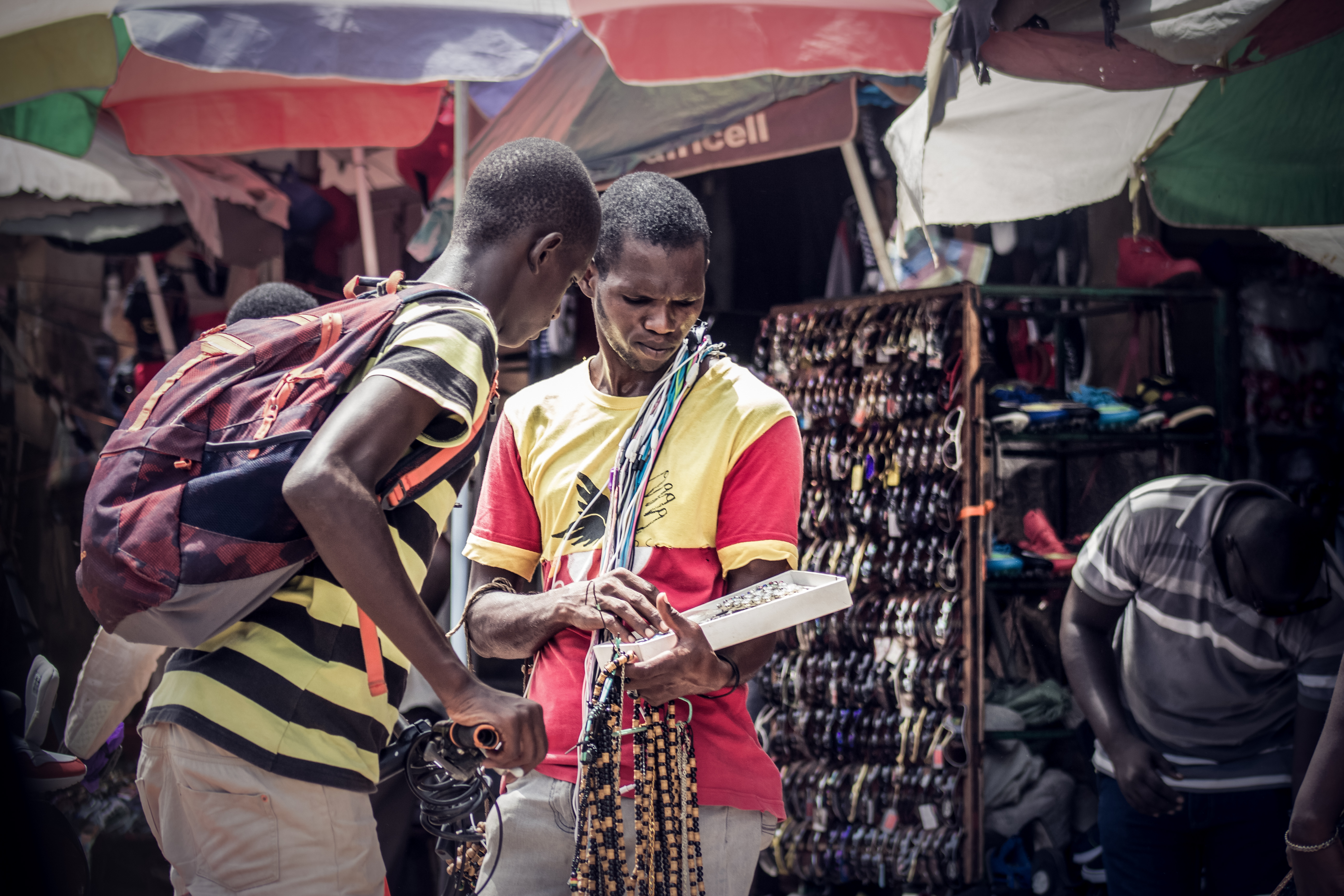 Seller showcasing his products to a potential buyer This is an image of "African people at work" from The Gambia